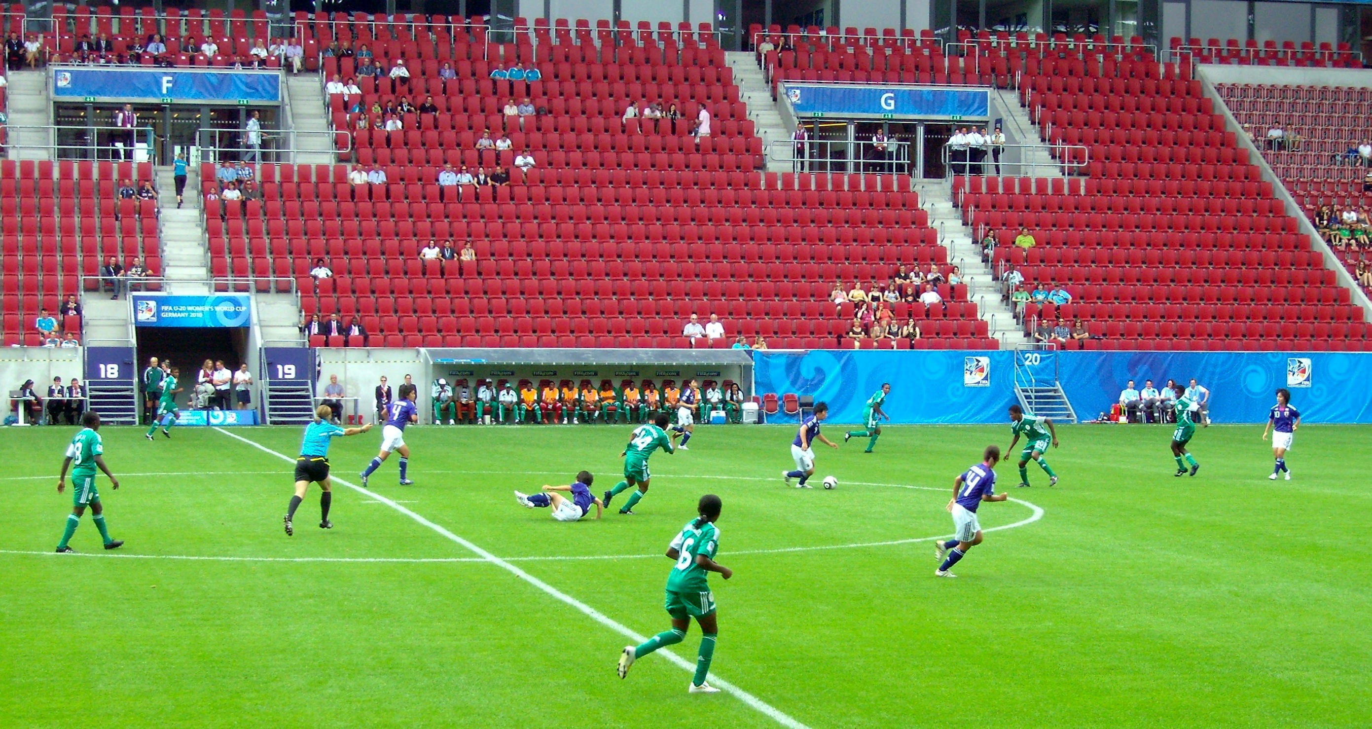 Nigeria–Japan at 2010 FIFA U-20 Women's World Cup in Impuls Arena as “FIFA Women's World Cup Stadium Augsburg”:Referee Cristina Dorcioman (ROM) plays an advantage after a Nigerian player (14) fouled a Japanese one.